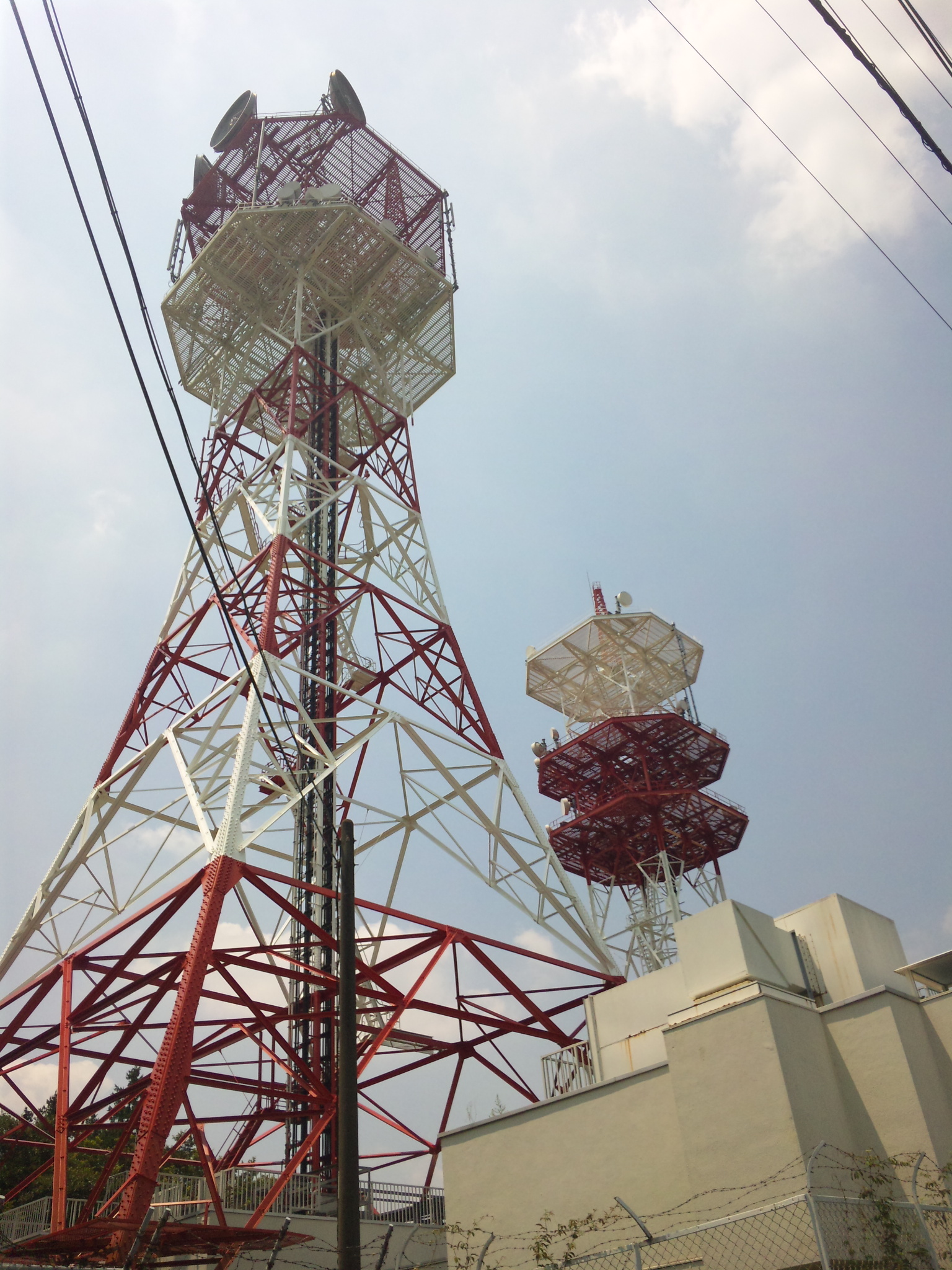 NTT Com Kamisugeta RT